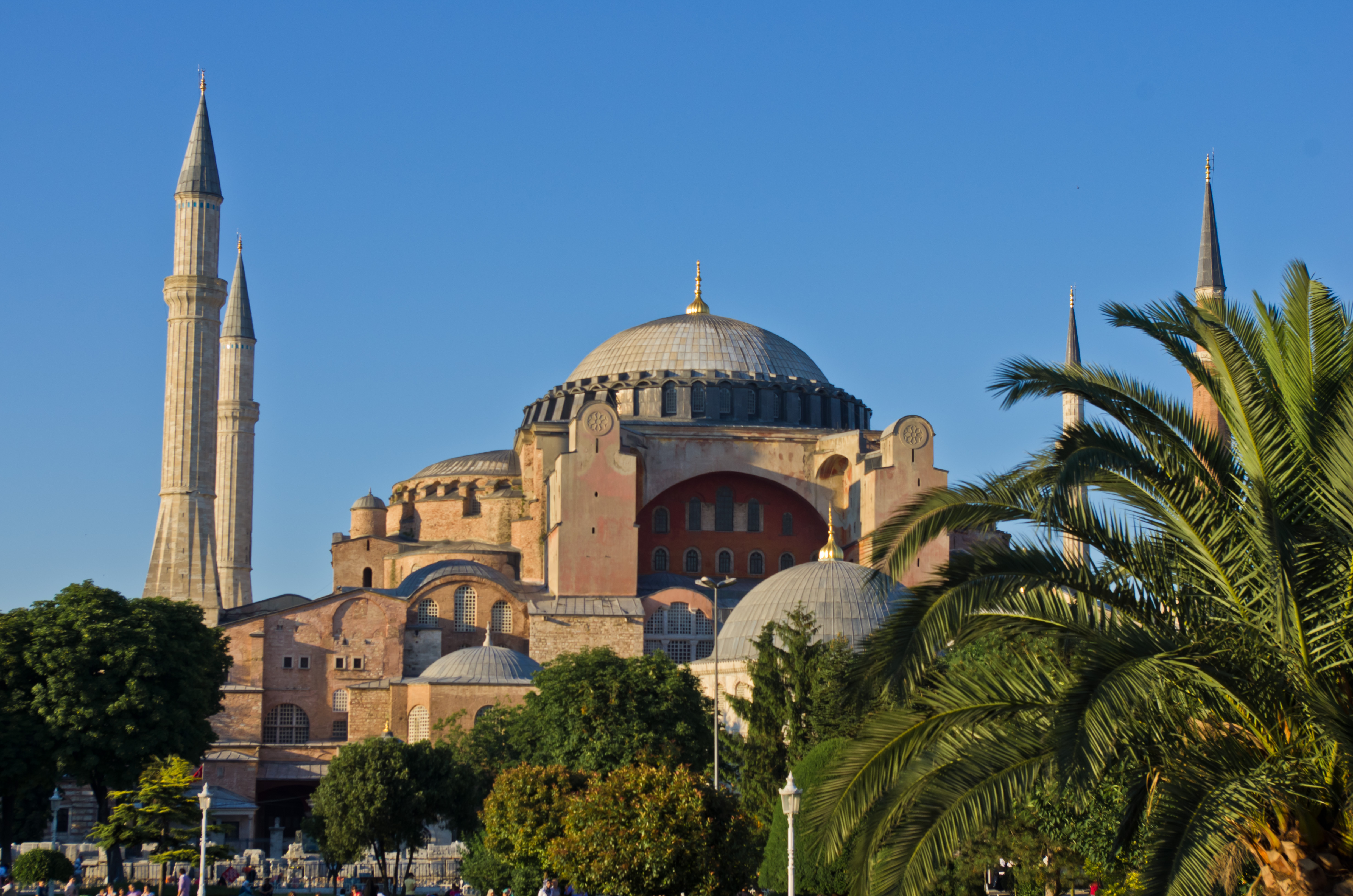 Exterior of Hagia Sophia